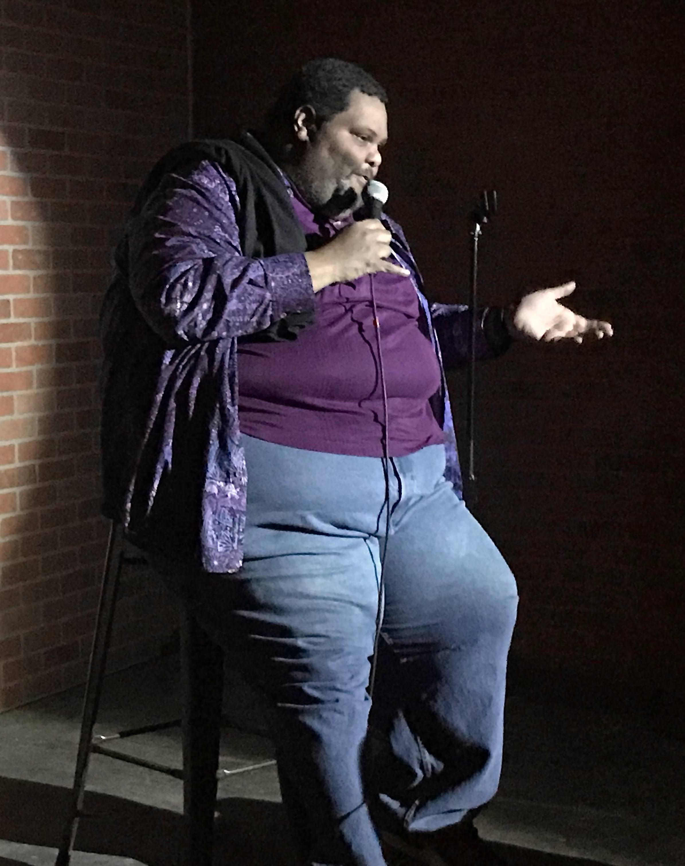 Mo Alexander The Secret Group Houston, TX